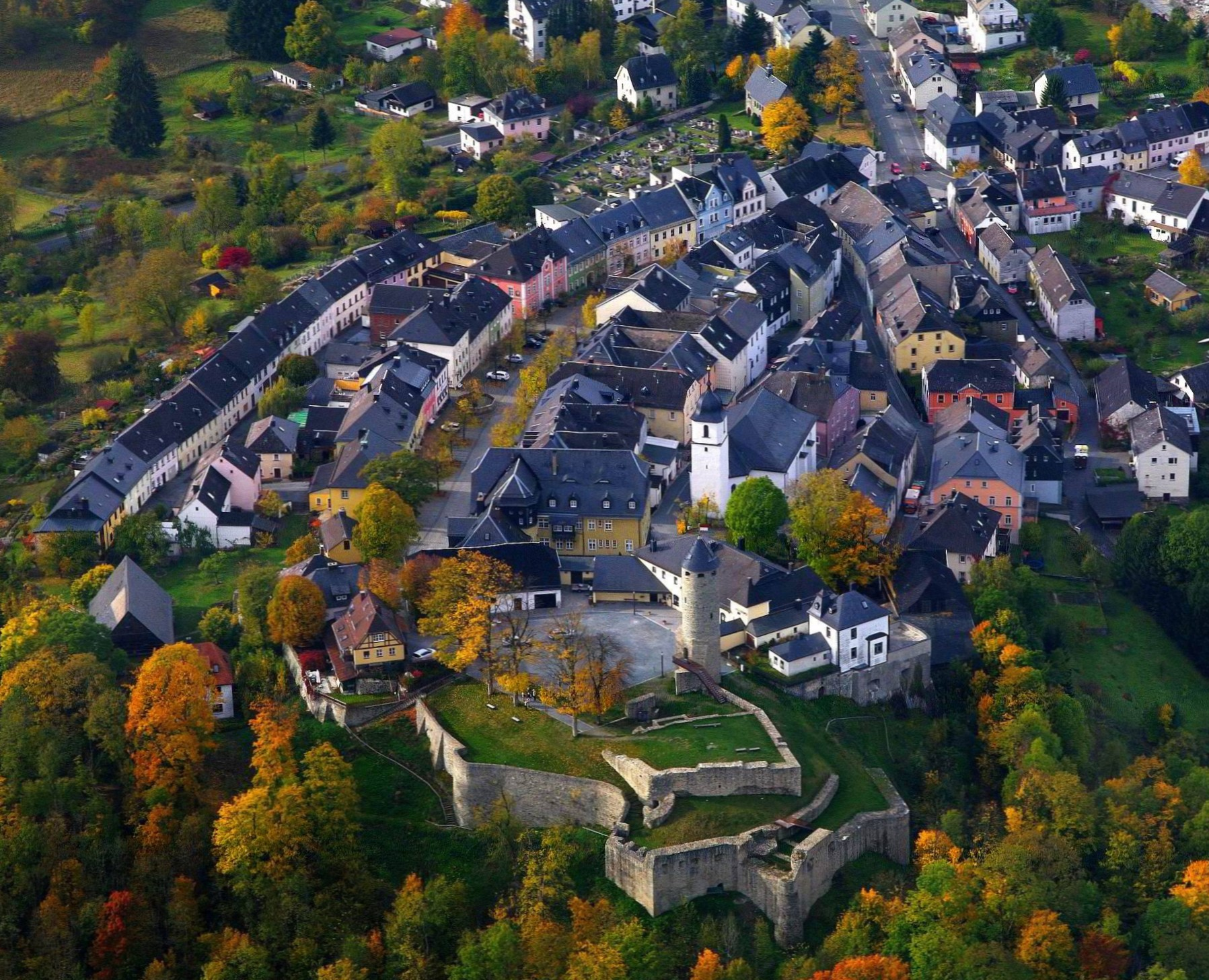 Aerial view of Lichtenberg (Upper Franconia) with the castle in the foreground.